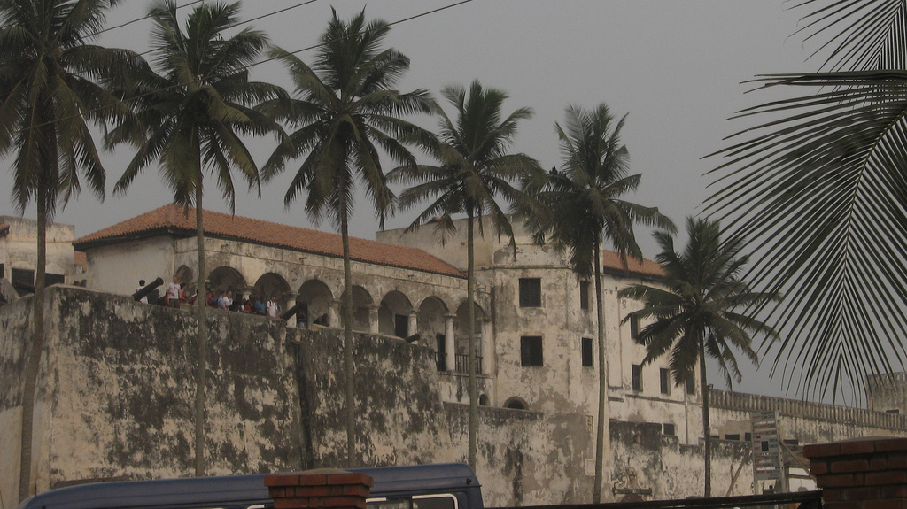 São Jorge da Mina (Elmina Castle (en) or St. George's Castle) in Elmina (en), Ghana.